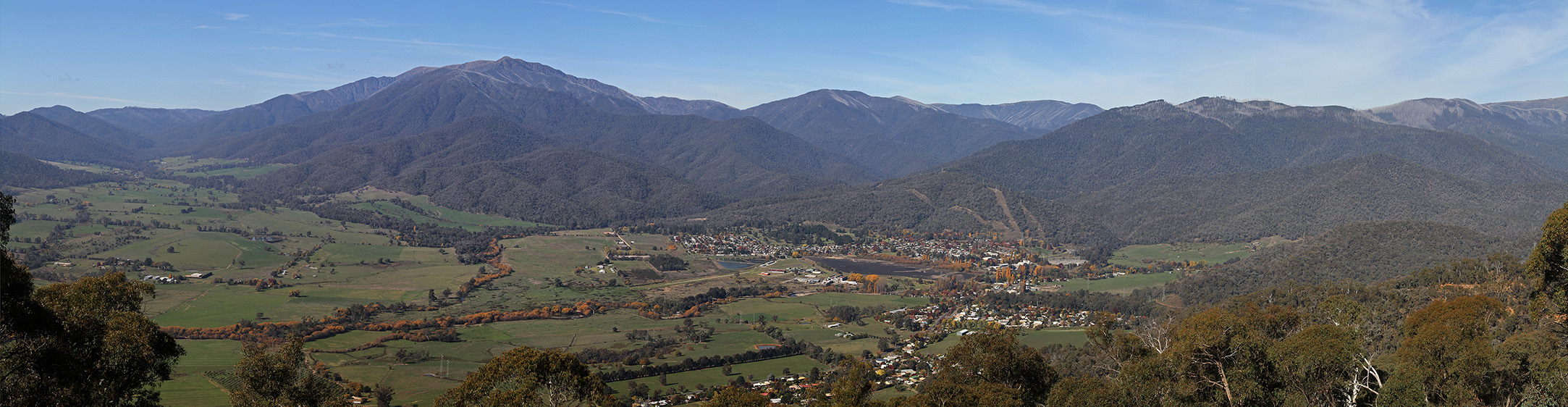 The town of Mount Beauty on the Kiewa River in the Kiewa Valley. The town is at the foot of Mount Bogong, Victoria's highest mountain at 1,986 metres (6,516 ft). Looking east from Sullivans Lookout on the Tawonga Gap Rd. Victoria, Australia.